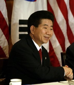 South Korean President Roh Moo-hyun at a working breakfast in Bangkok, Thailand, Oct. 20, 2003. (Press release)